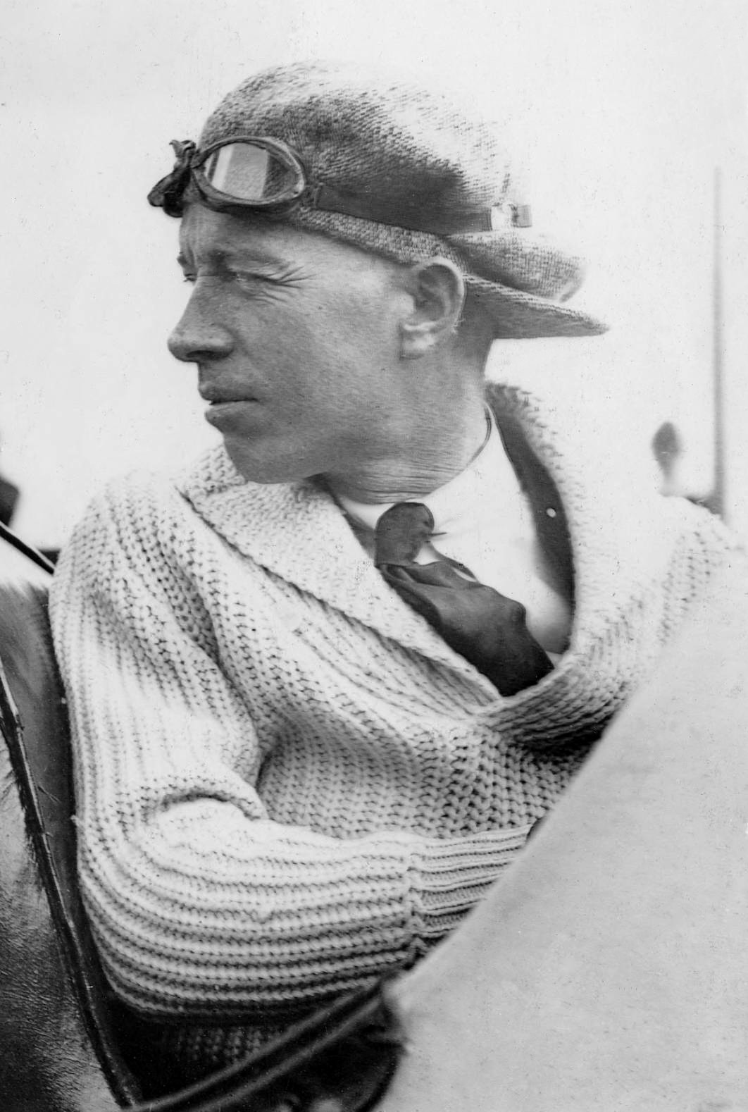 Ca. 1921. Speed king Eddie Hearne watches as fellow driver Harry Hartz pours Richlube Motor Oil in Mr. Hearne's vehicle. Richlube Motor Oil was manufactured by the Richfield Oil Co. of California. This photograph may have been taken around 1920 or 1921 at the Tacoma Speedway. Both years Mr. Hearne drove a white Revere.